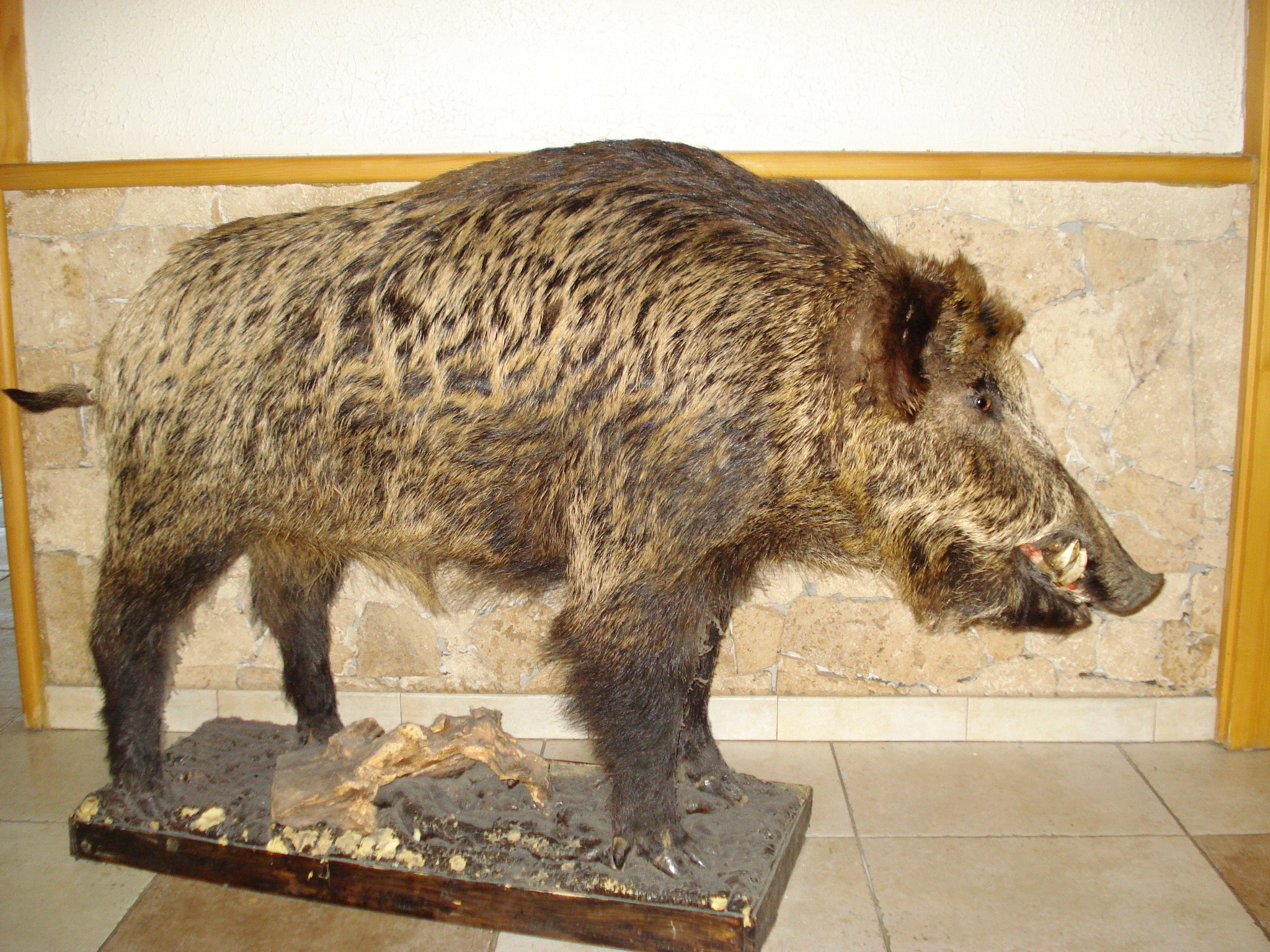 Stuffed wild boar in the Zir rest stop at A1 Highway in Lika, CroatiaHrvatski: Preparirani vepar u odmorištu Zir na Autocesti A1 u Lici, Hrvatska